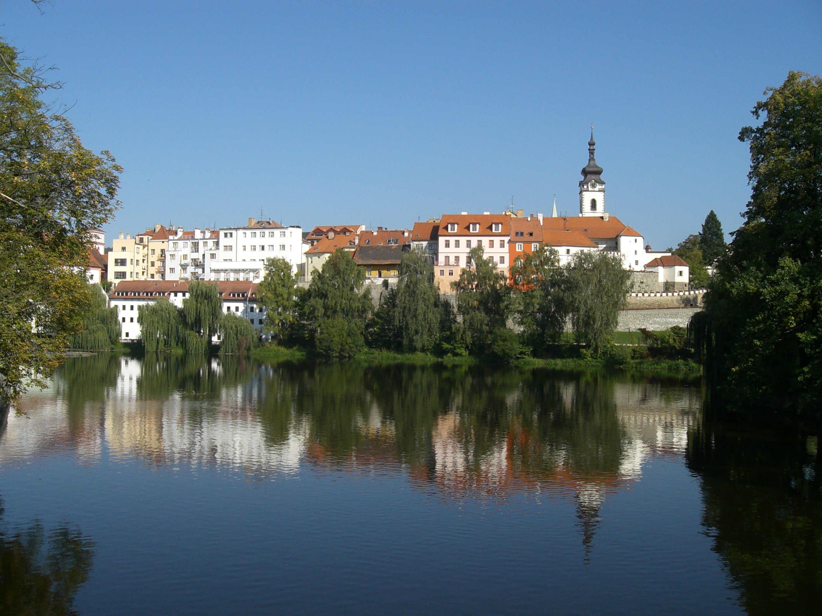 Sight to Písek from Lávka. In the front is Kostel Narození Panny Marie. On the right part is ramparts and on the left part is Křižík hydro-power plant.